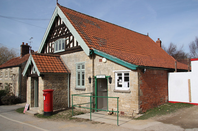 Village Hall & Post Office Dual-purpose community building at Corby Glen